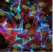 Contractile Fibroblast cells Immunofluorescent staining of these cells reveals the extracellular matrix (blue) and the Epidermal Growth Factor rich portion of the ECM (turquoise)